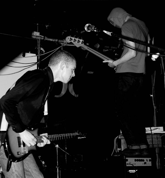 Adebisi Shank performing live 10 August 2009. Left to right: guitarist Larry Kaye, bassist Vincent McCreith.